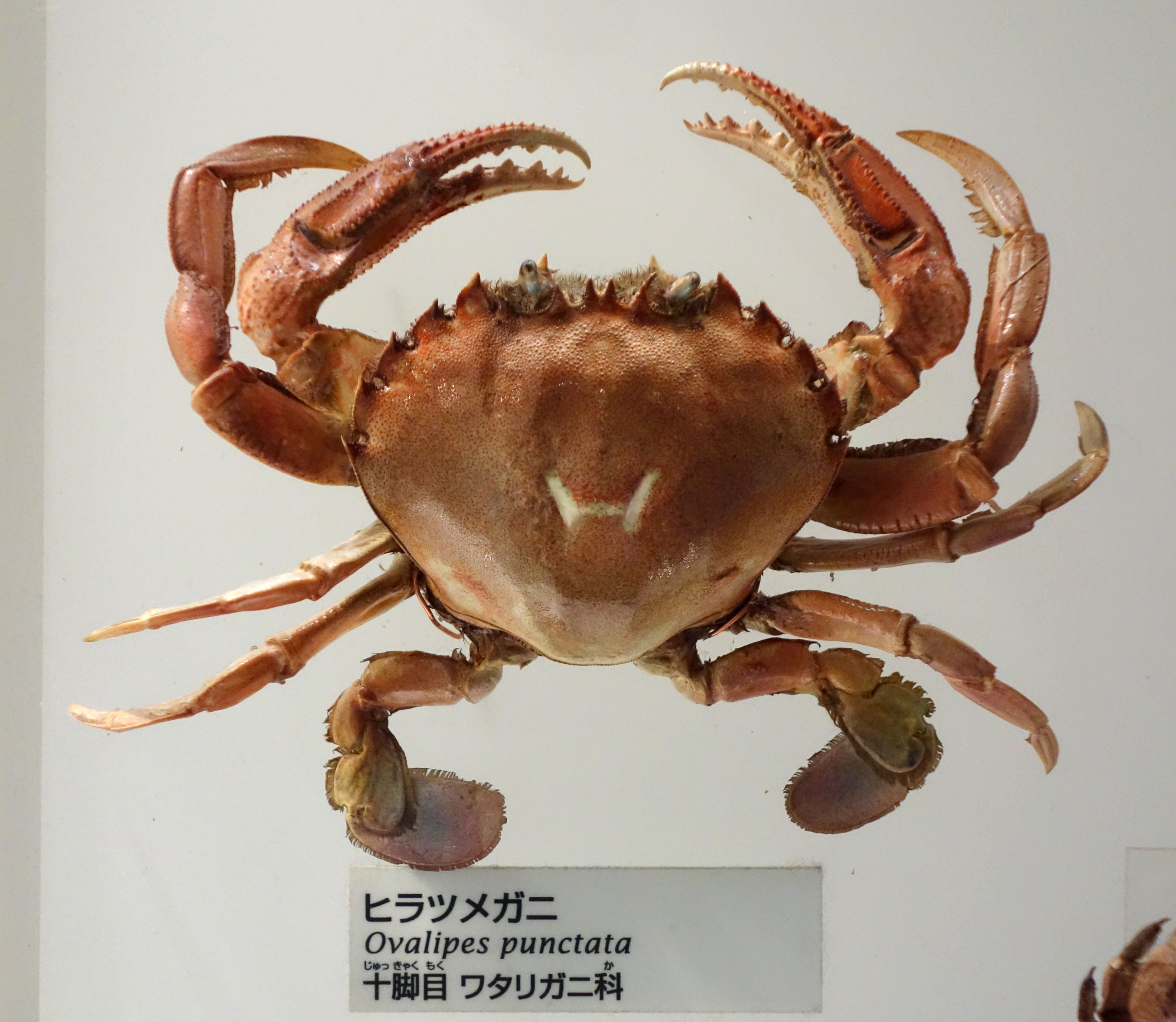 Exhibit in the National Museum of Nature and Science, Tokyo, Japan.